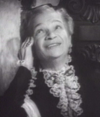 Cropped screenshot of Maria Ouspenskaya from the film Love Affair.